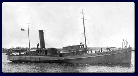 Photograph of Canadian PV class minesweeping trawler PV II (PV 2).